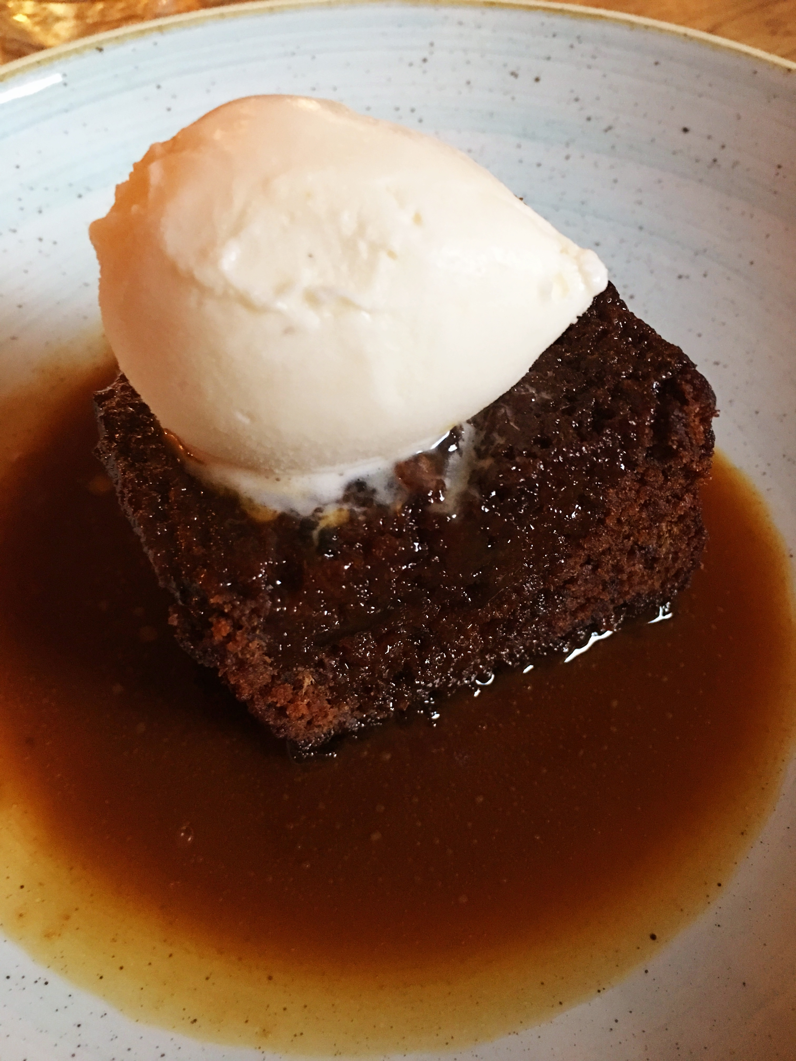 Sticky toffee pudding with banana ice cream at The Black Swan, Cobham, England